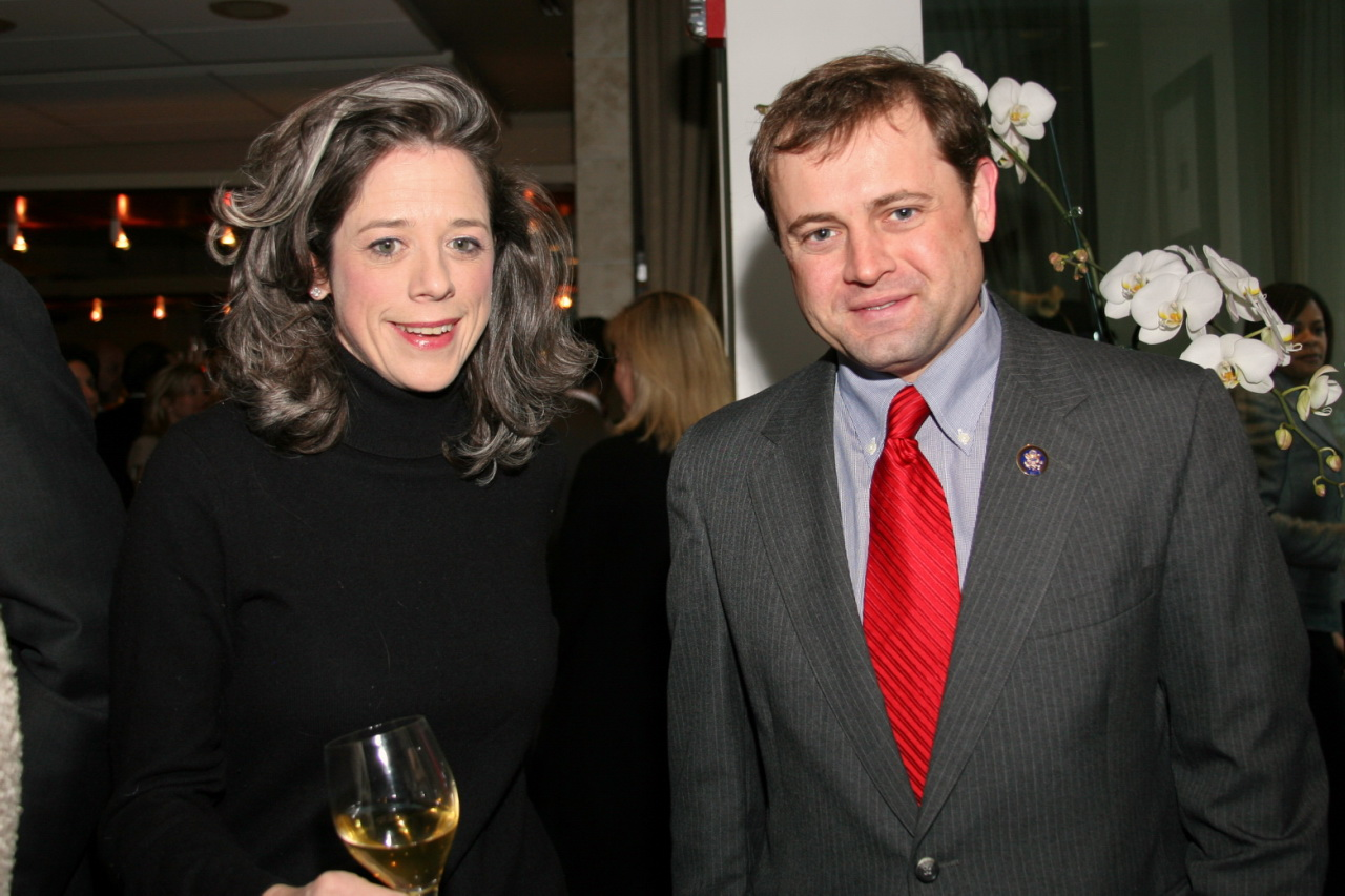 Tom Perriello, Democratic US Representative from Virginia's 5th Congressional District and lobbyist Heather Podesta at a party hosted by the Podesta Group in Washington, DC to honor of the inauguration of Barack Obama.